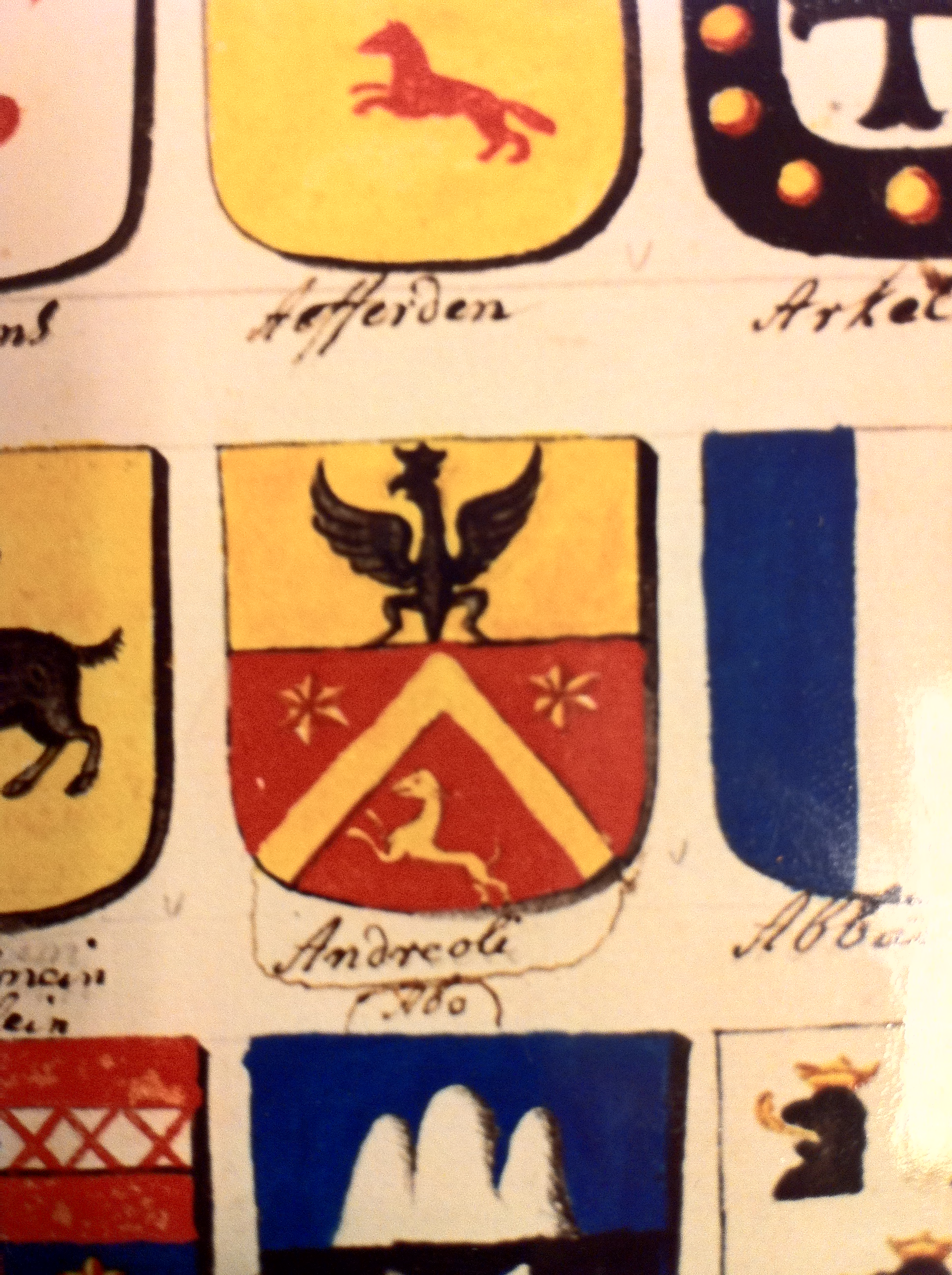 Reinier van Heemskerck, Waapen boeck van adelijke en aanzienelijke famiellien in de 17 provintien van de Nederlanden